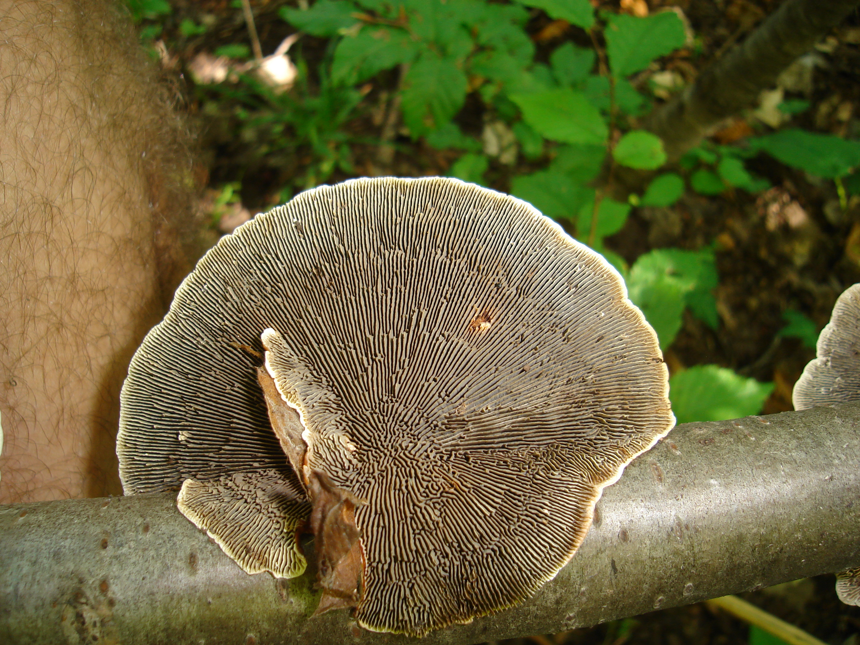 Daedaleopsis confragosa (Bolton) J. Schröt. Image location: Breaza, Prahova county, Romania Found them in the forest on a fallen branch, partly decayed wood. Recognized by sight For more information about this, see the observation page at Mushroom Observer.